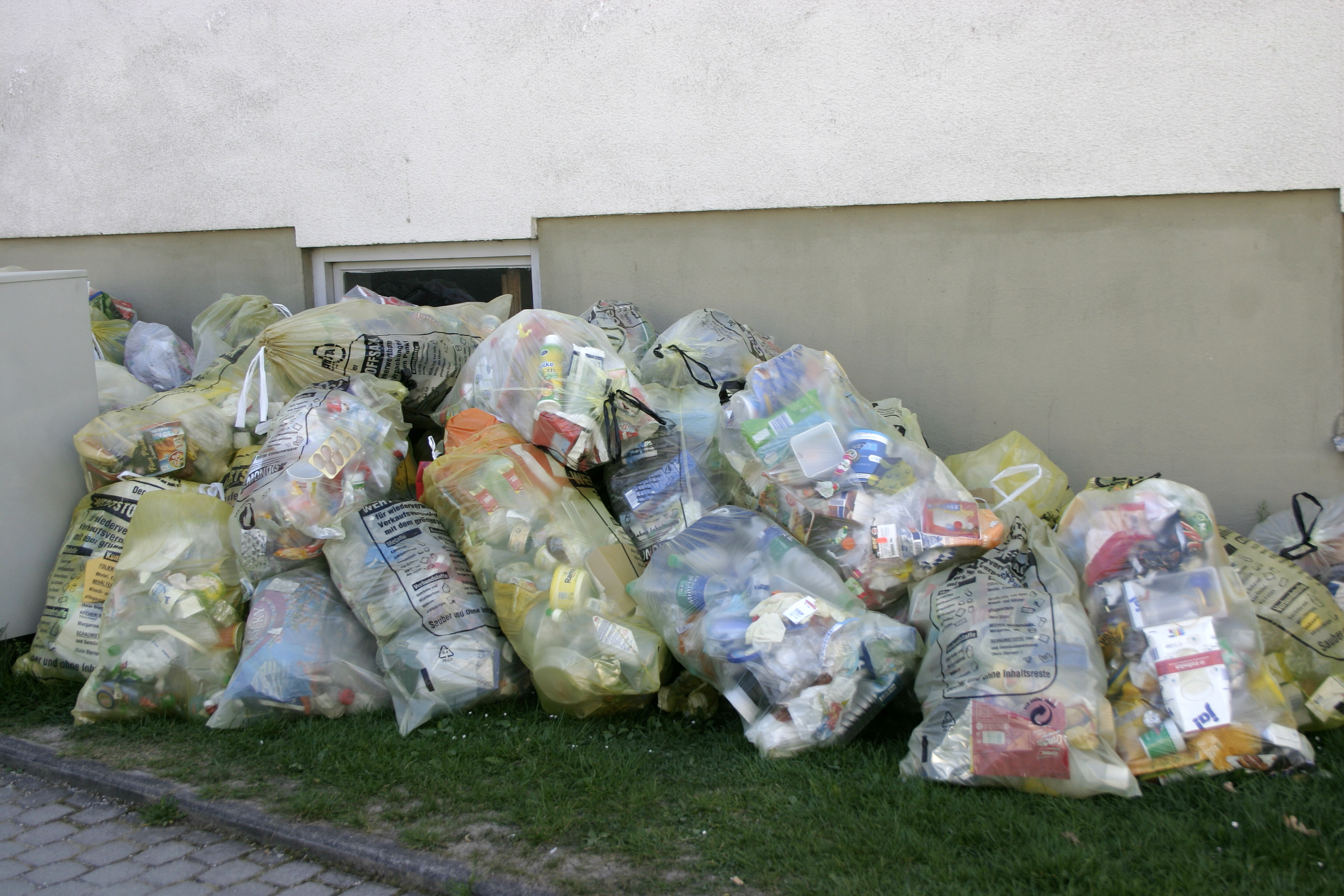 Germany - Home plastic waste to be collected for recycling